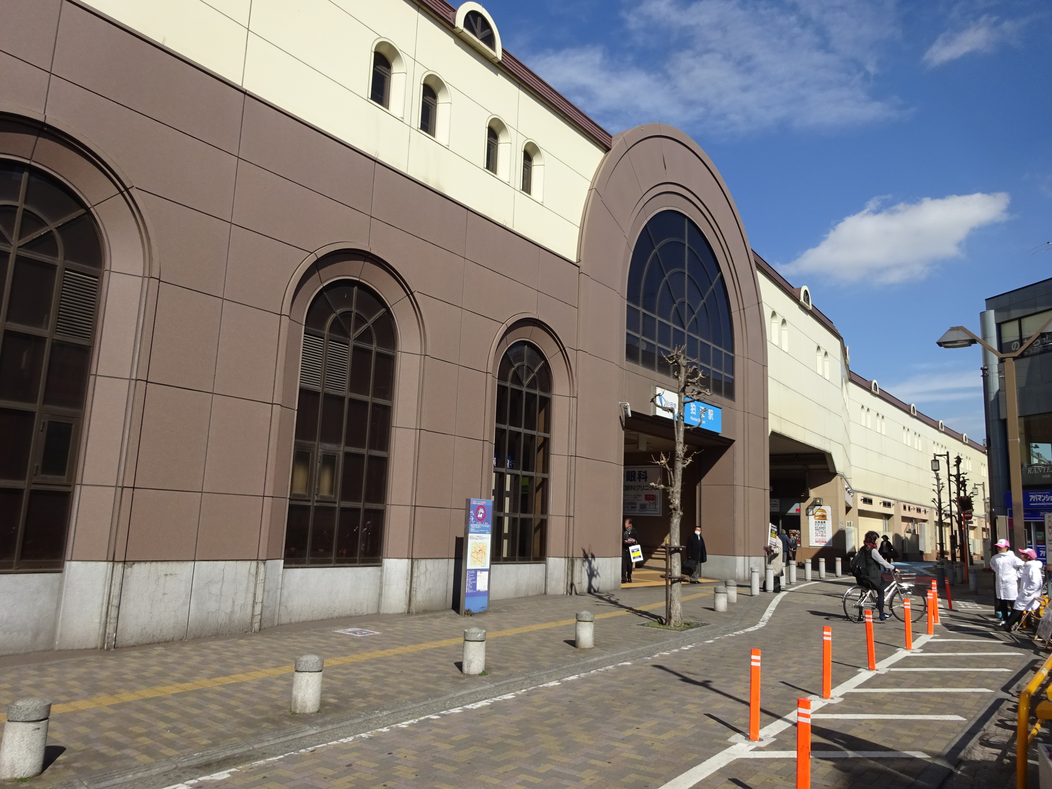 South Entrance of Komae Station